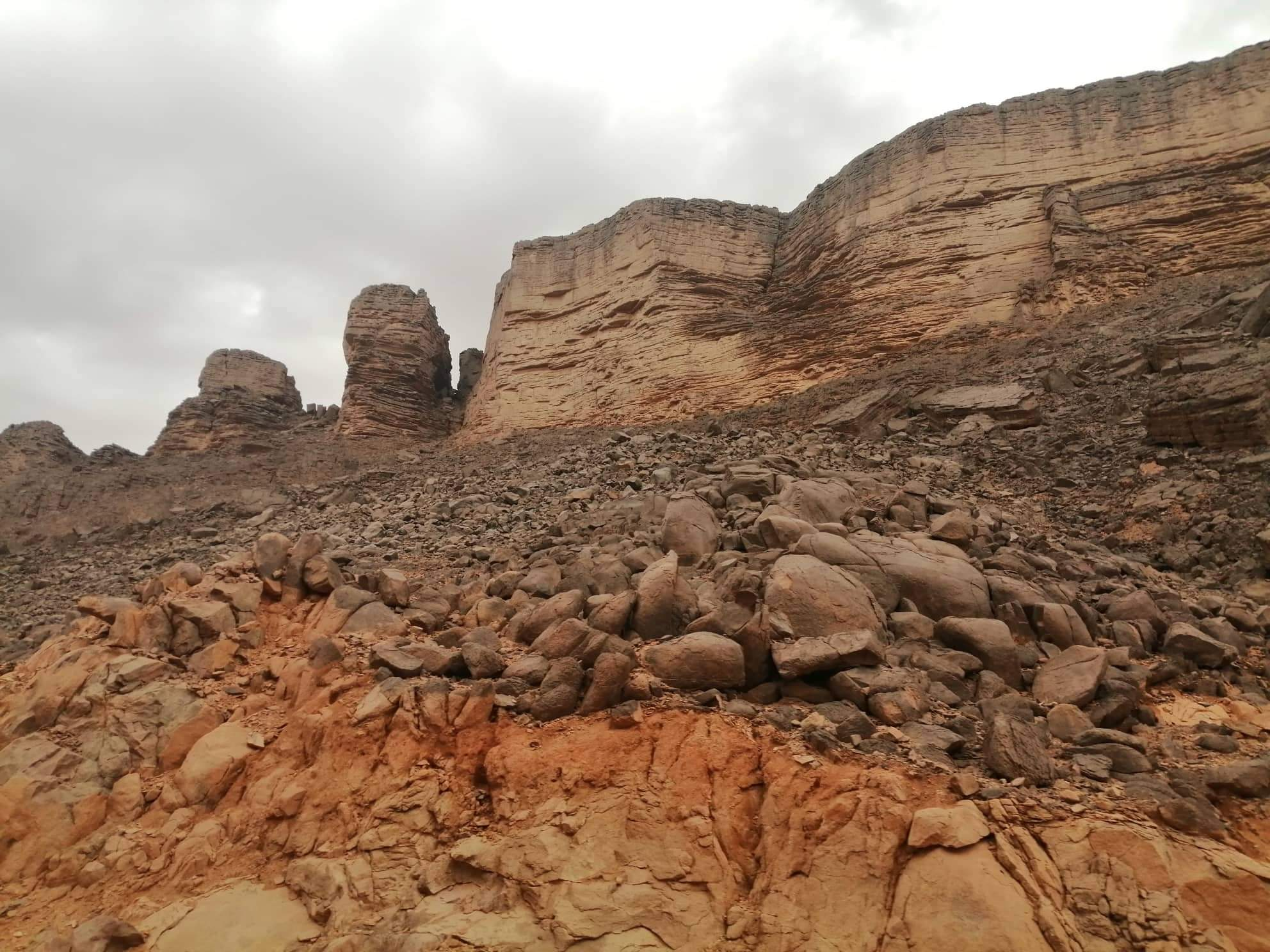 This is an image with the theme "Africa on the Move or Transport" from: Algeria